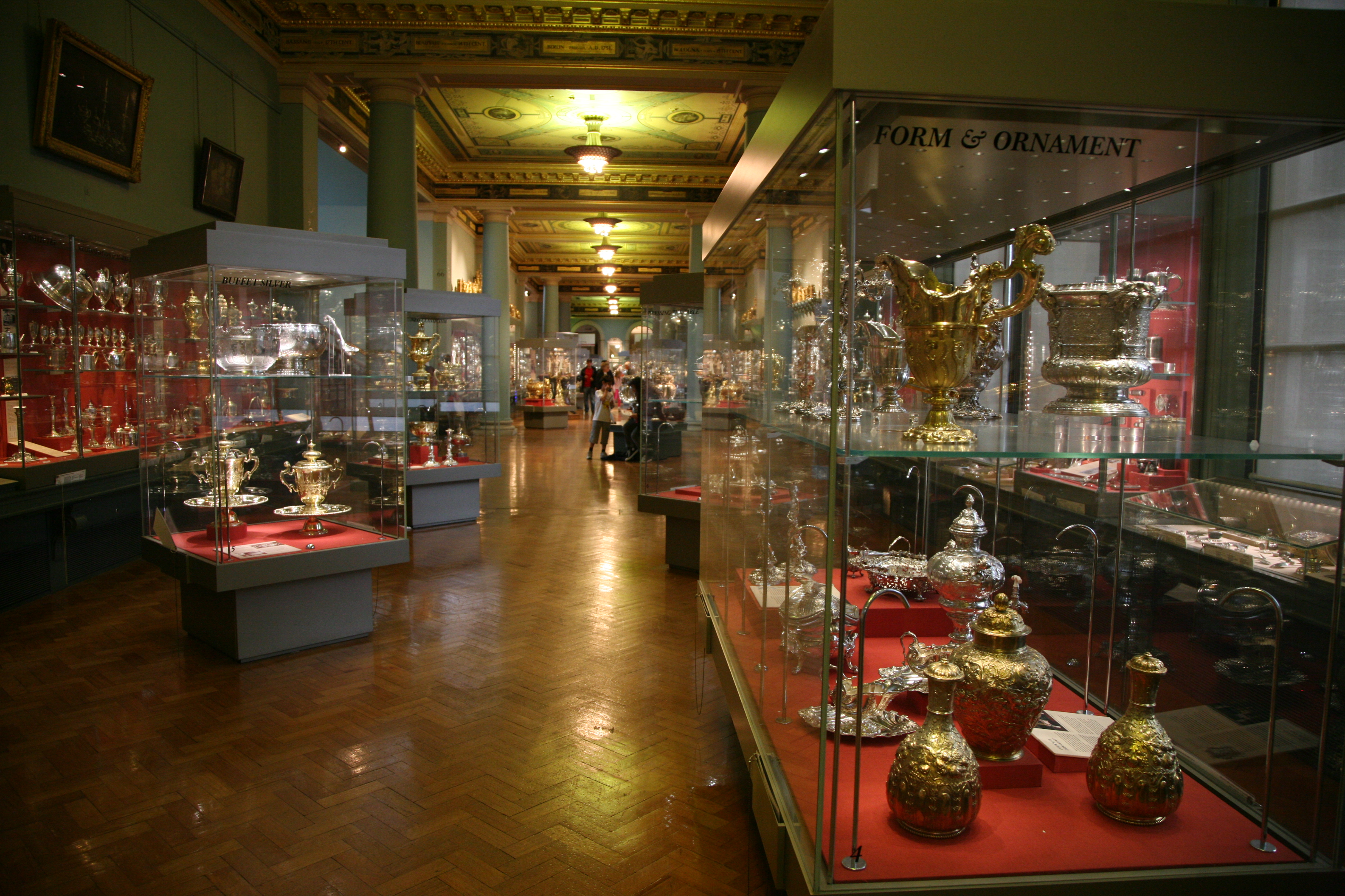 At Victoria and Albert Museum, London, England.